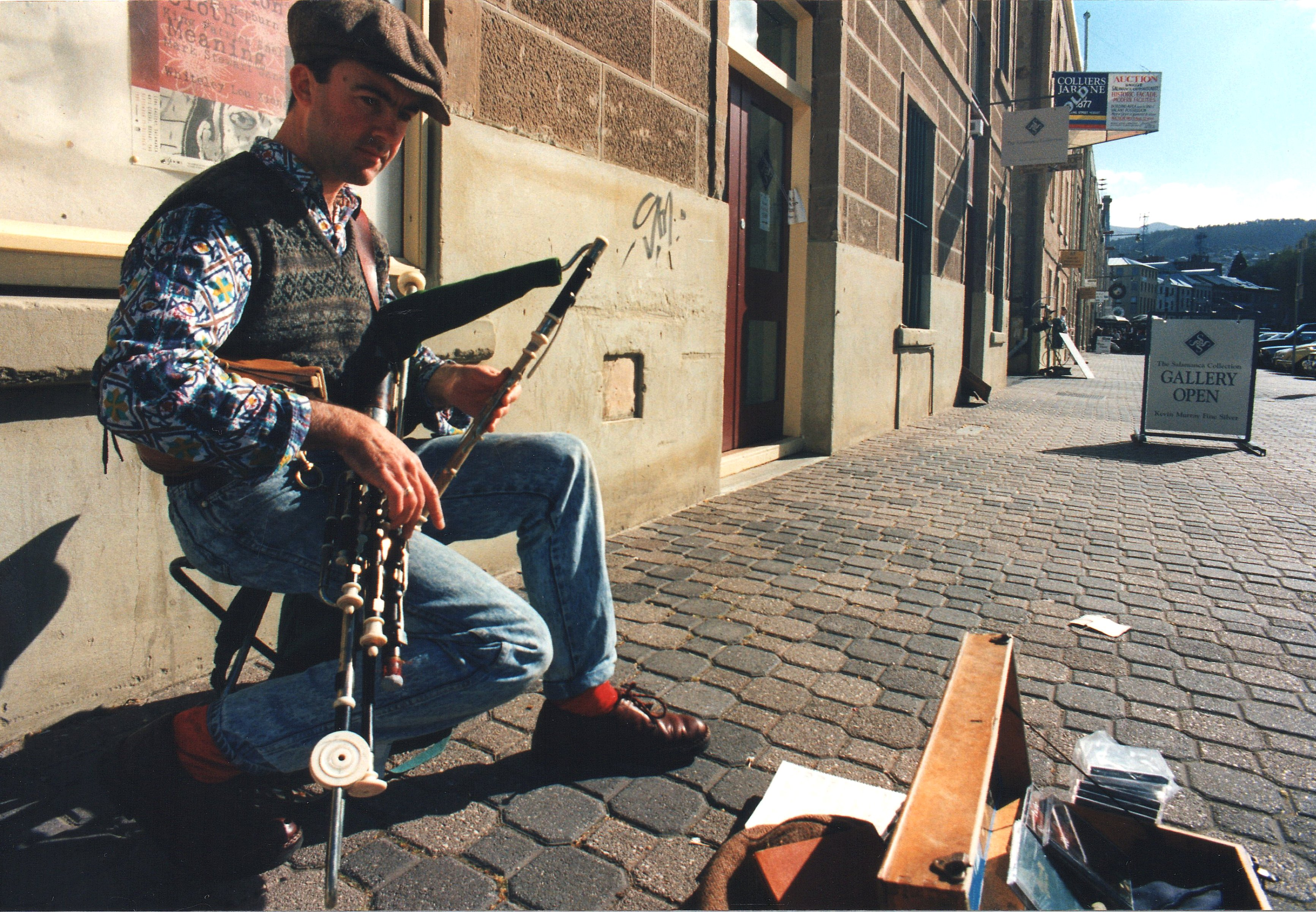 Richard "Dicky" Deegan, piper, busking in Salamanca Place, Hobart, Tasmania, Australia in 1995 (Tony Rees photograph)